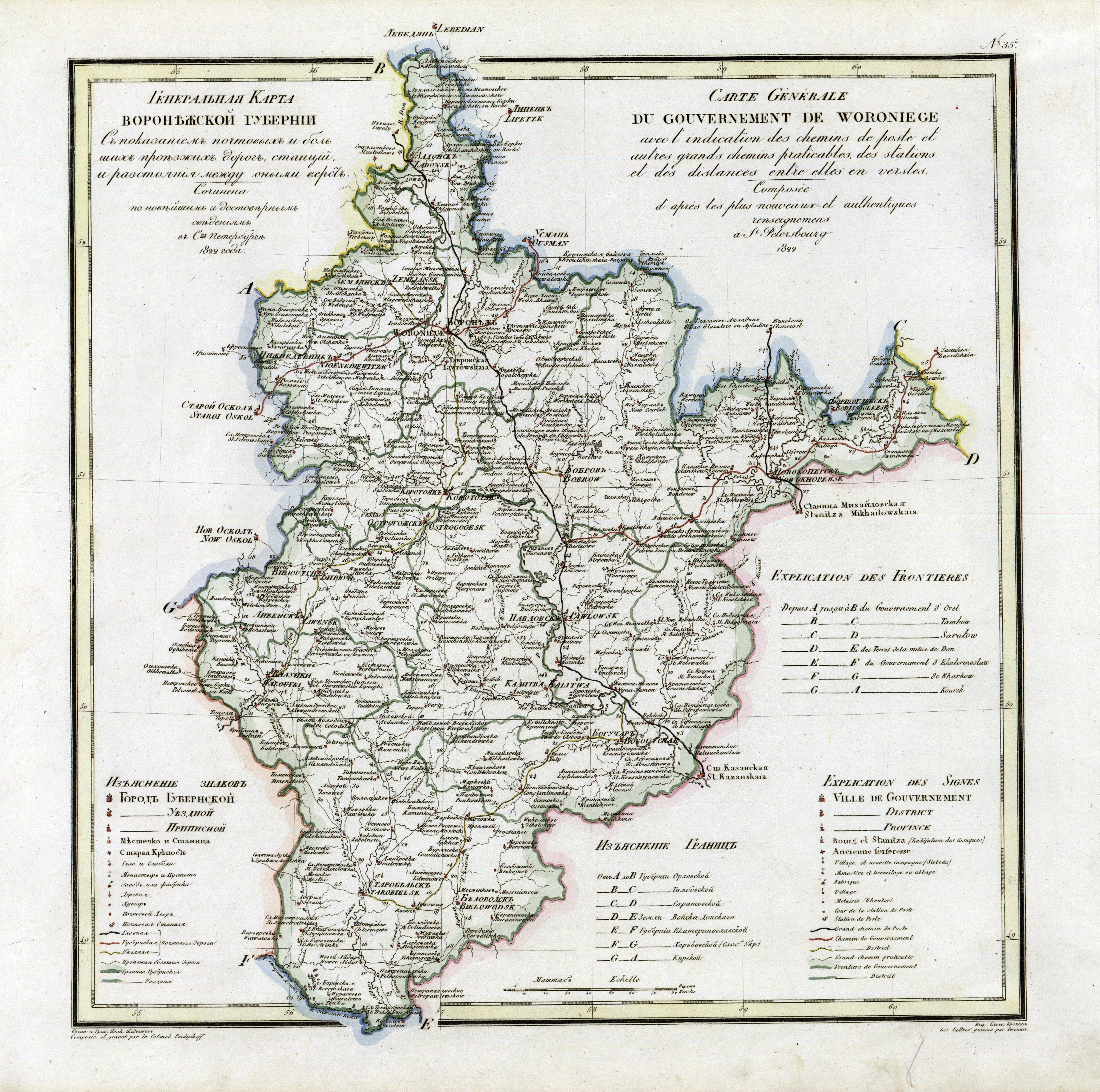 Voronezh governorate